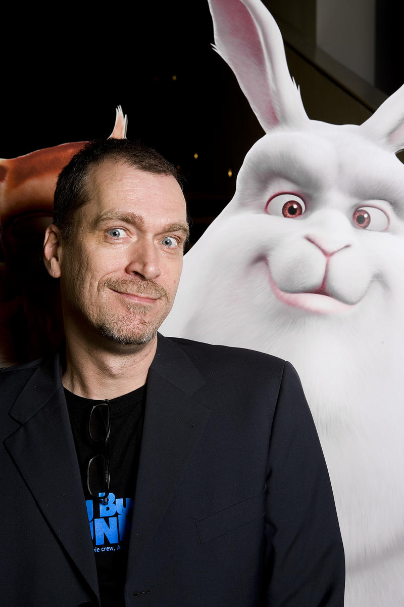 Ton Roosendaal, producer of Big Buck Bunny and chairman of the Blender Foundation.